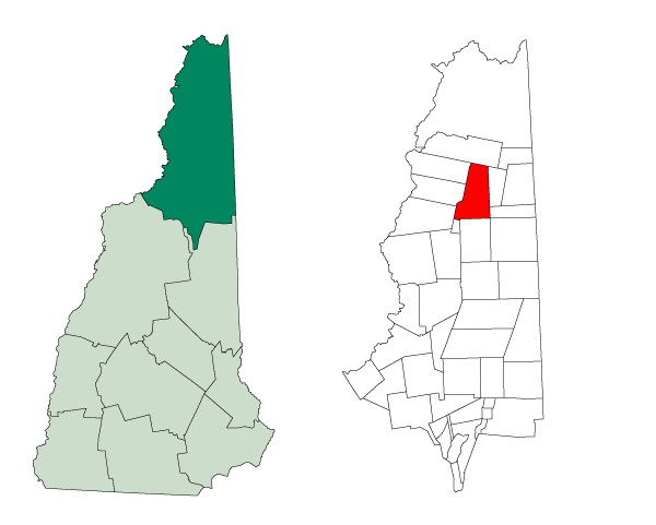 Map of a municipality in Coos County, New Hampshire